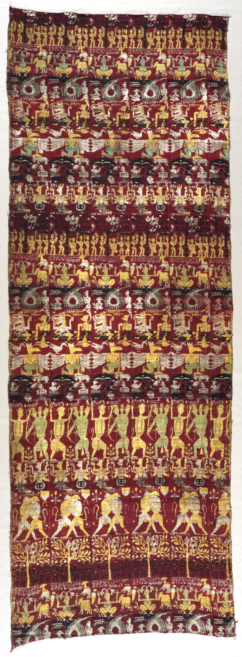 India, Assam, Barpeta, circa 1570 Textiles; curtains Figured silk, complex weave (lampas) 91 x 31 1/4 in. (231.14 x 79.38 cm) Costume Council Fund (AC1995.94.1) Costume and Textiles